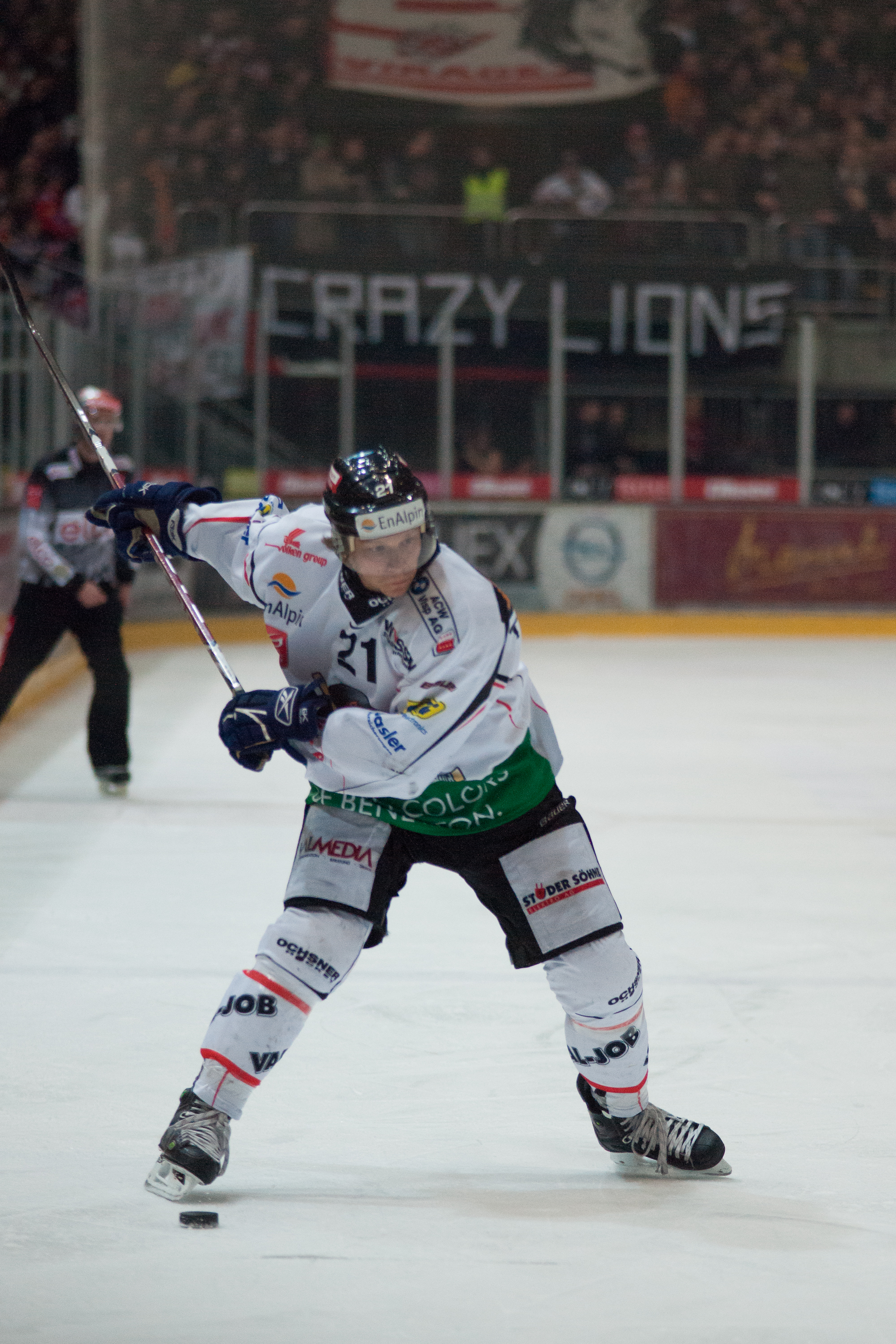 { The making of this document was supported by Wikimedia CH. (Submit your project!) For all the files concerned, please see the category Supported by Wikimedia CH.